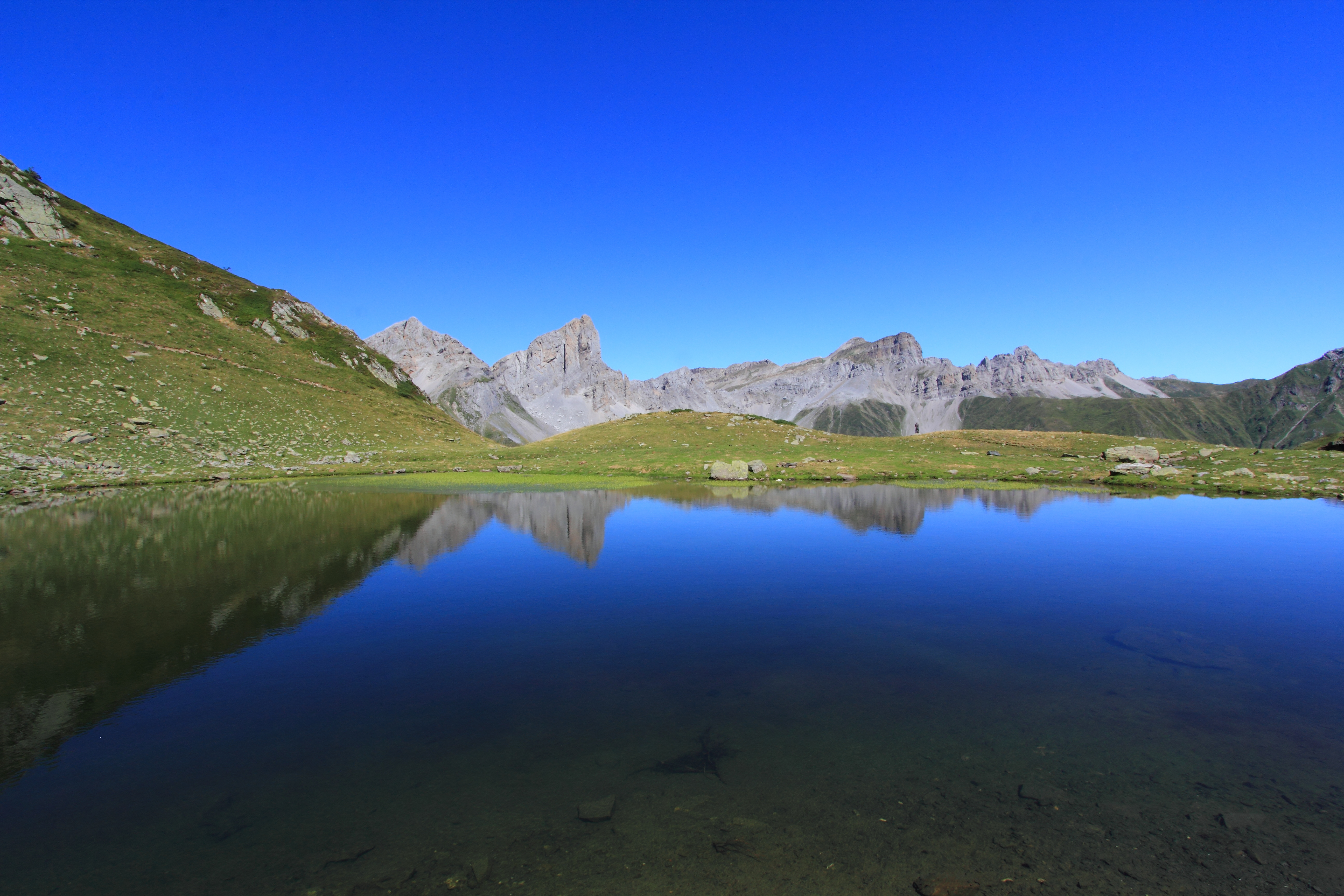 Ansabere lake (Lac d'Ansabère) in the French Pyrenees